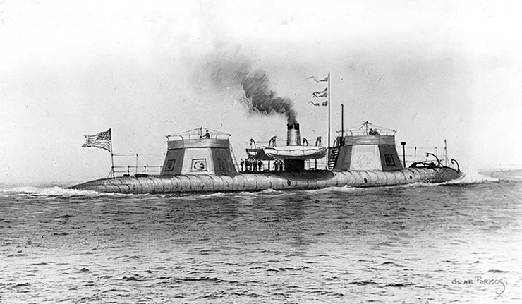 USS Keokuk (1863-1863). Watercolor by Oscar Parkes.